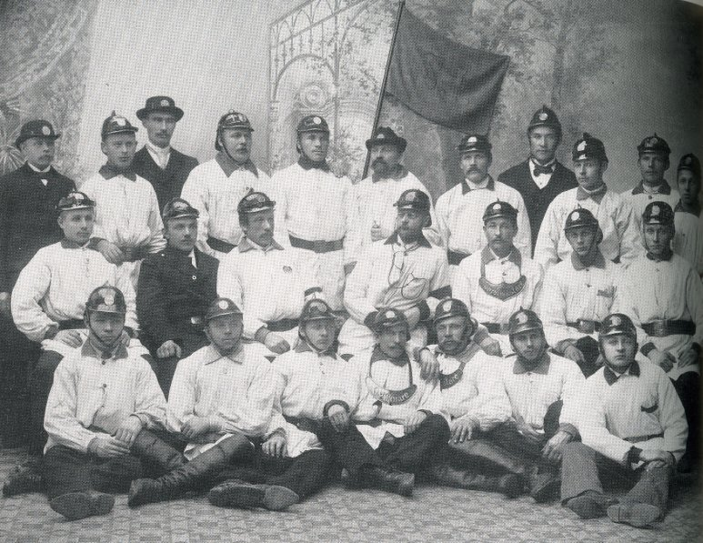 Helsinki voluntary fire department in around 1900